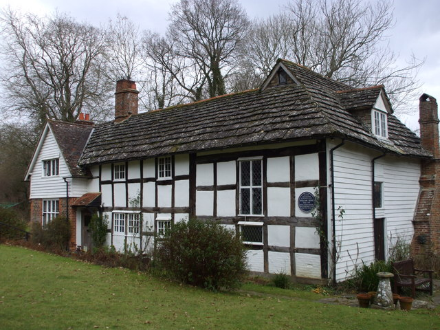 Blue Idol Friends' Meeting House, Oldhouse Lane, Coneyhurst, West Sussex